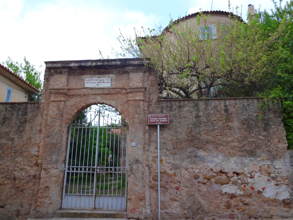 Palazzo de Angelis in San Marco di Castellabate. The Latin inscription (A.D. 1880) on the arch says: INVENI PORTUM. SPES FORTUNA VALETE! / SAT ME LUSISTIS. LUDITE NUNC ALIOS. / 1880